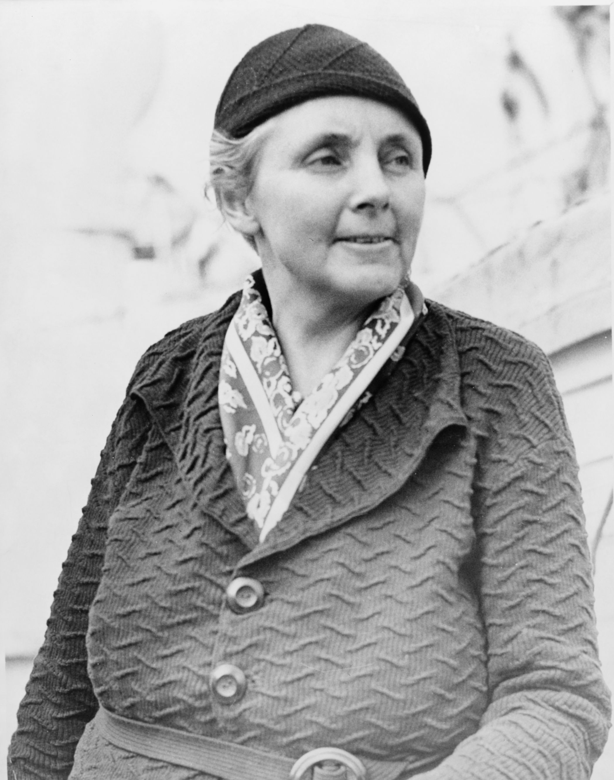 Anna Louise Strong--longest living American in Moscow / World Telegram photo.